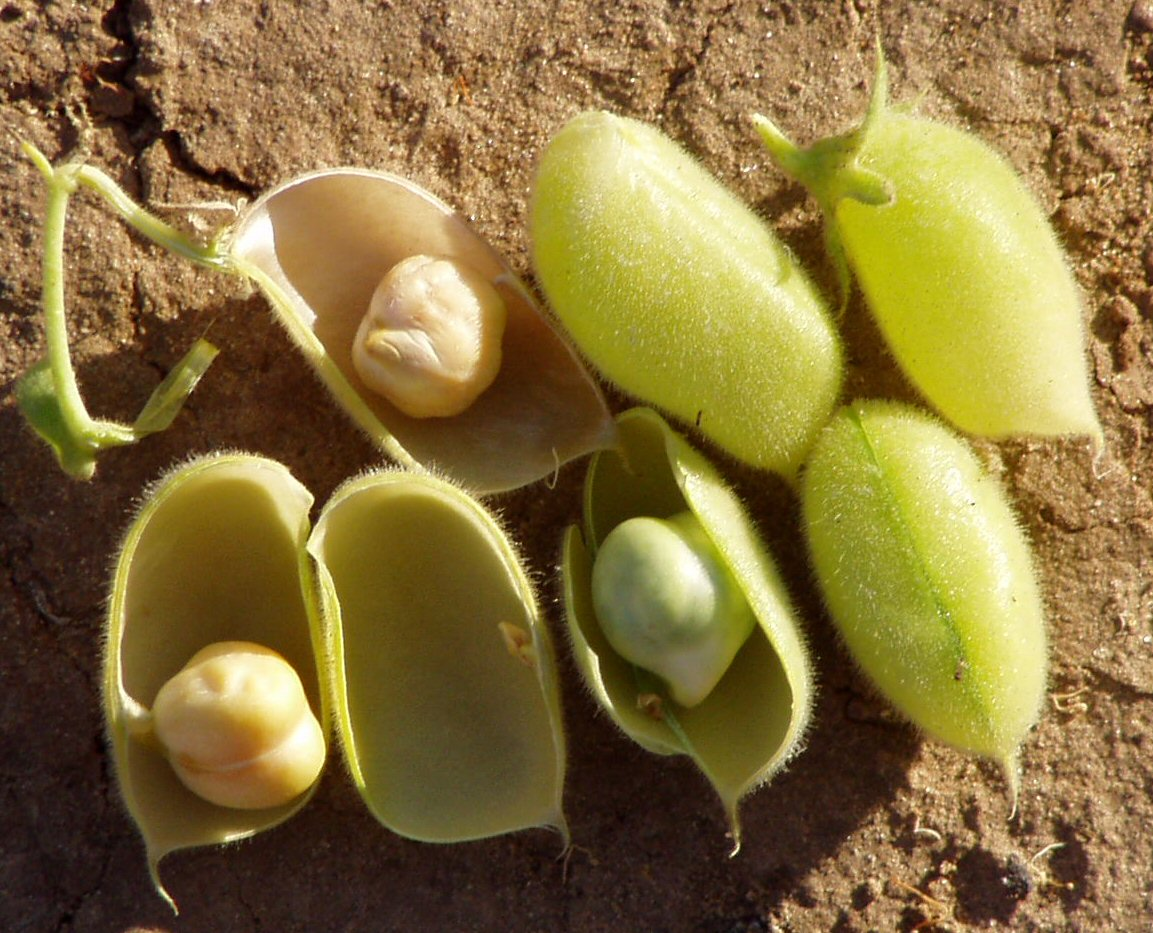 Pods of Cicer arietinum